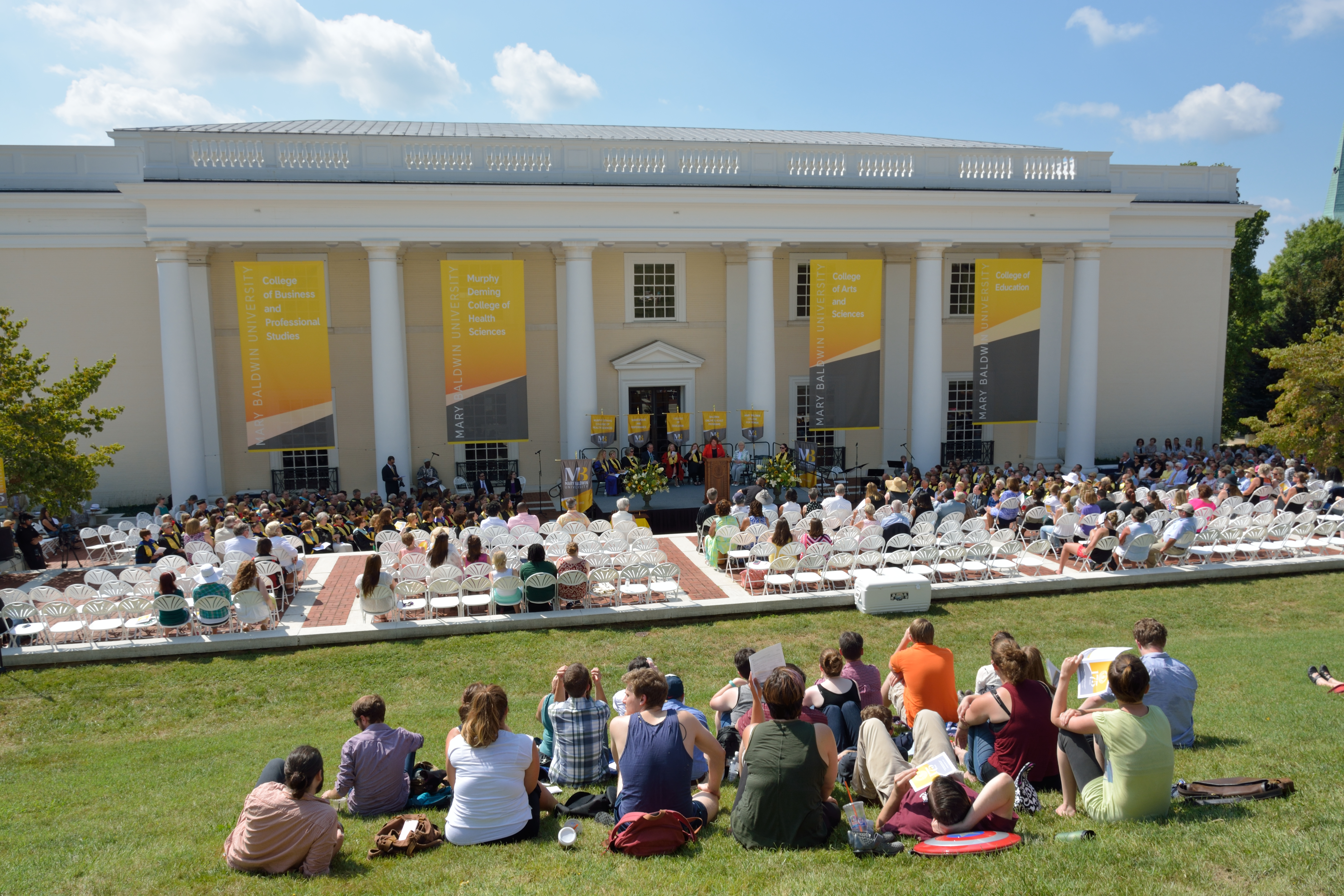 The Mary Baldwin University campus sits on 58.5 acres overlooking Staunton, Virginia's, downtown district.